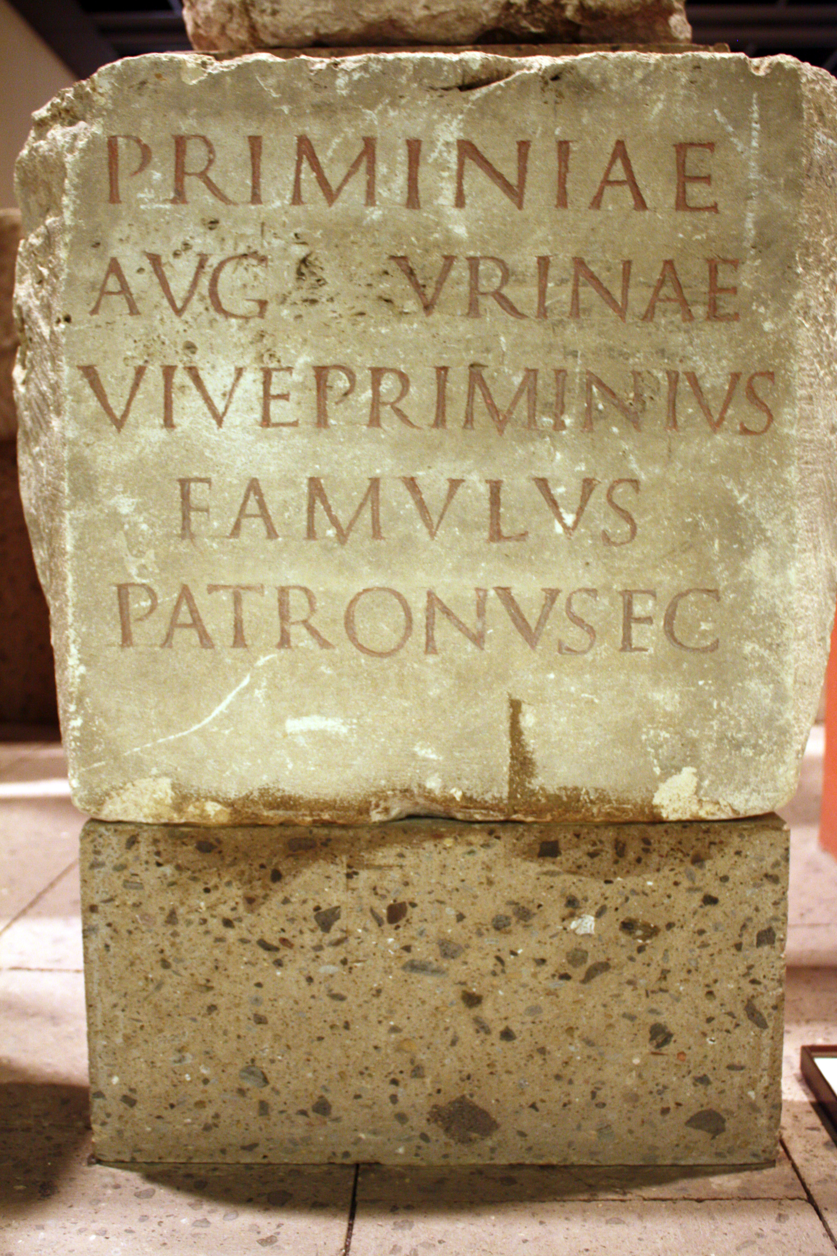 Cologne, roman tomb of Priminiae Augurinae, 2/3rd century